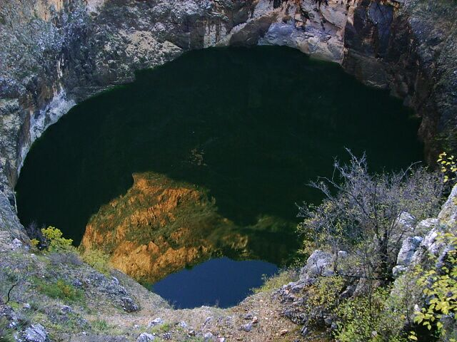 Red Lake (Crveno Jezero) near the town of Imotski, Croatia